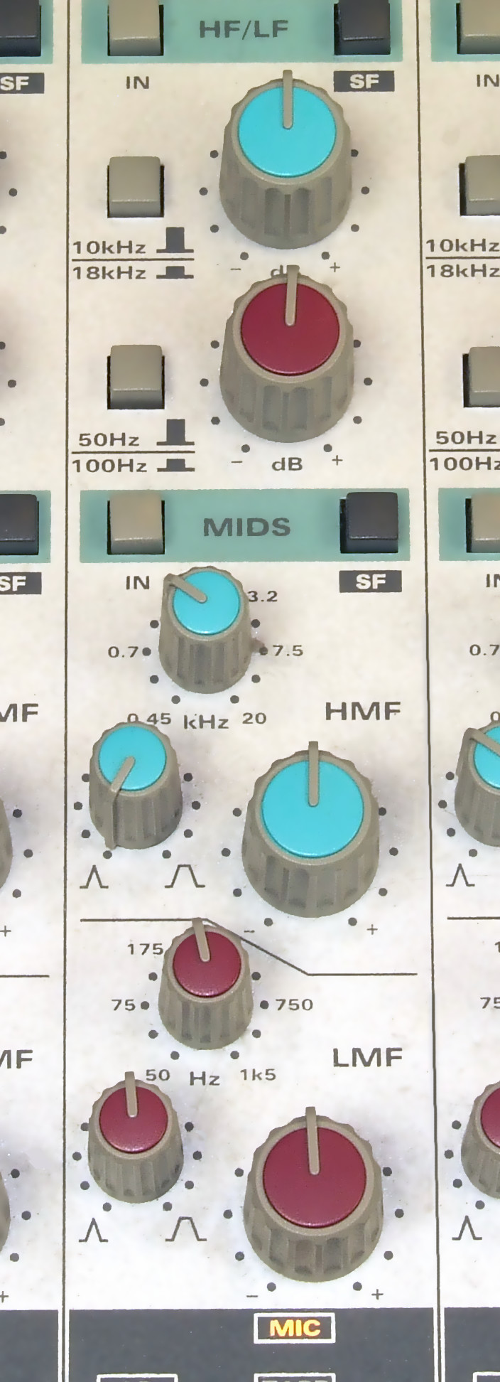 The equaliser section form the Audient 8024 mixing console